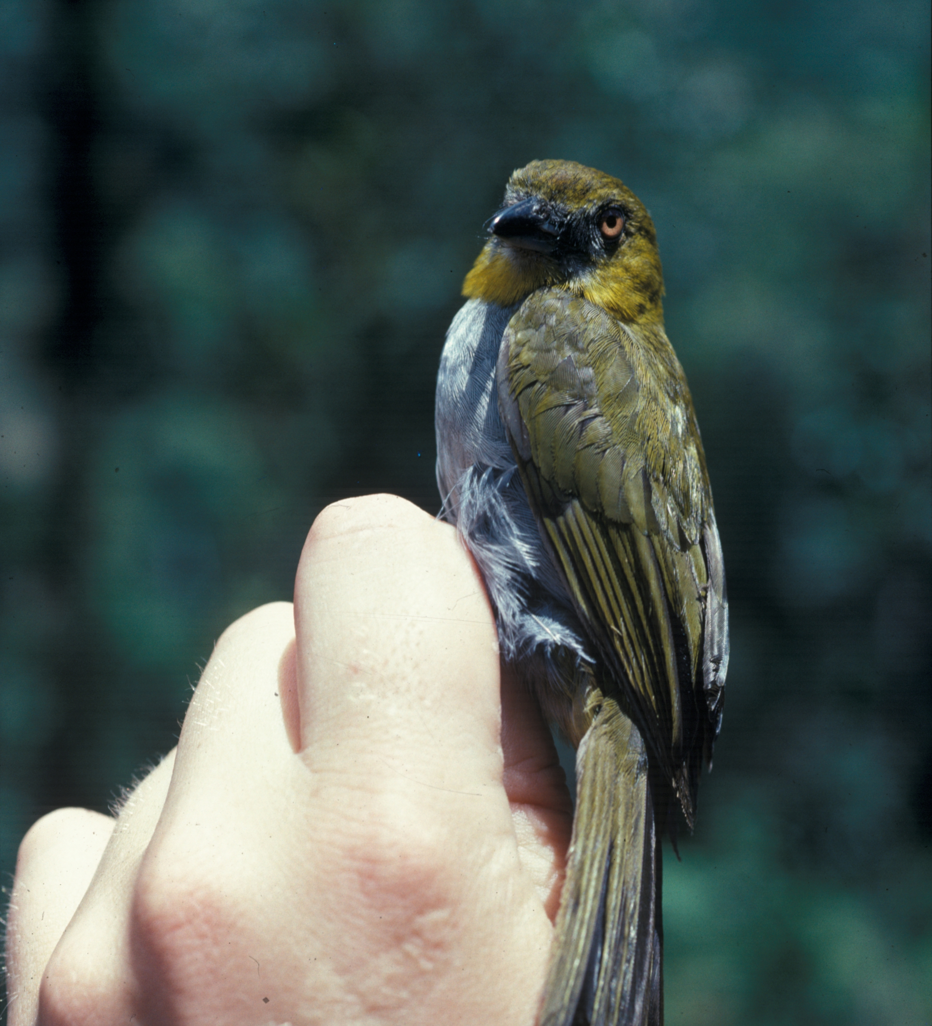 Yellow-throated Bush-tanager (Chlorospingus flavigularis) in Ecuador. Picture from the NBII Image Gallery.